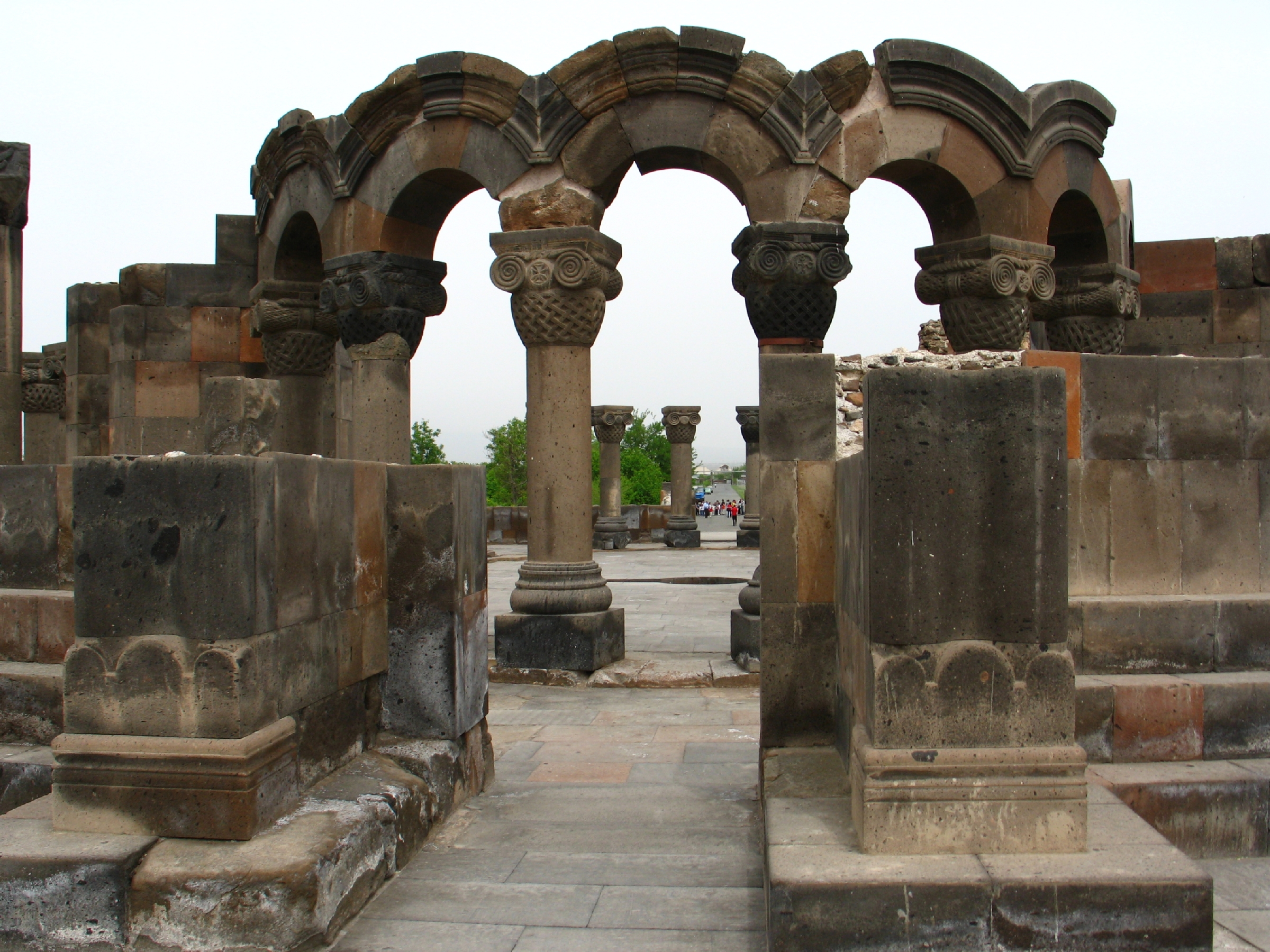 ԵԿԵՂԵՑԱԿԱՆ ՀԱՄԱԼԻՐ՝ ՎԱՂԱՐՇԱՊԱՏԻ Ս. ԳՐԻԳՈՐ (ԶՎԱՐԹՆՈՑ) 2/13